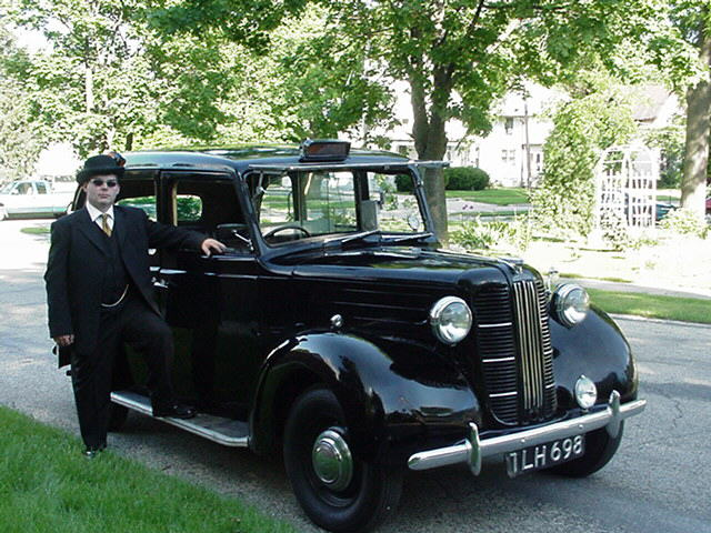 An Example of a 1957 Austin FX3 London Taxi